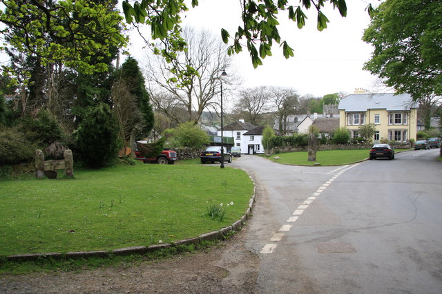 Belstone Village Green The village stocks, stay animal pound, and Methodist chapel (see other photos for this grid square) are all beside the lane on the left.